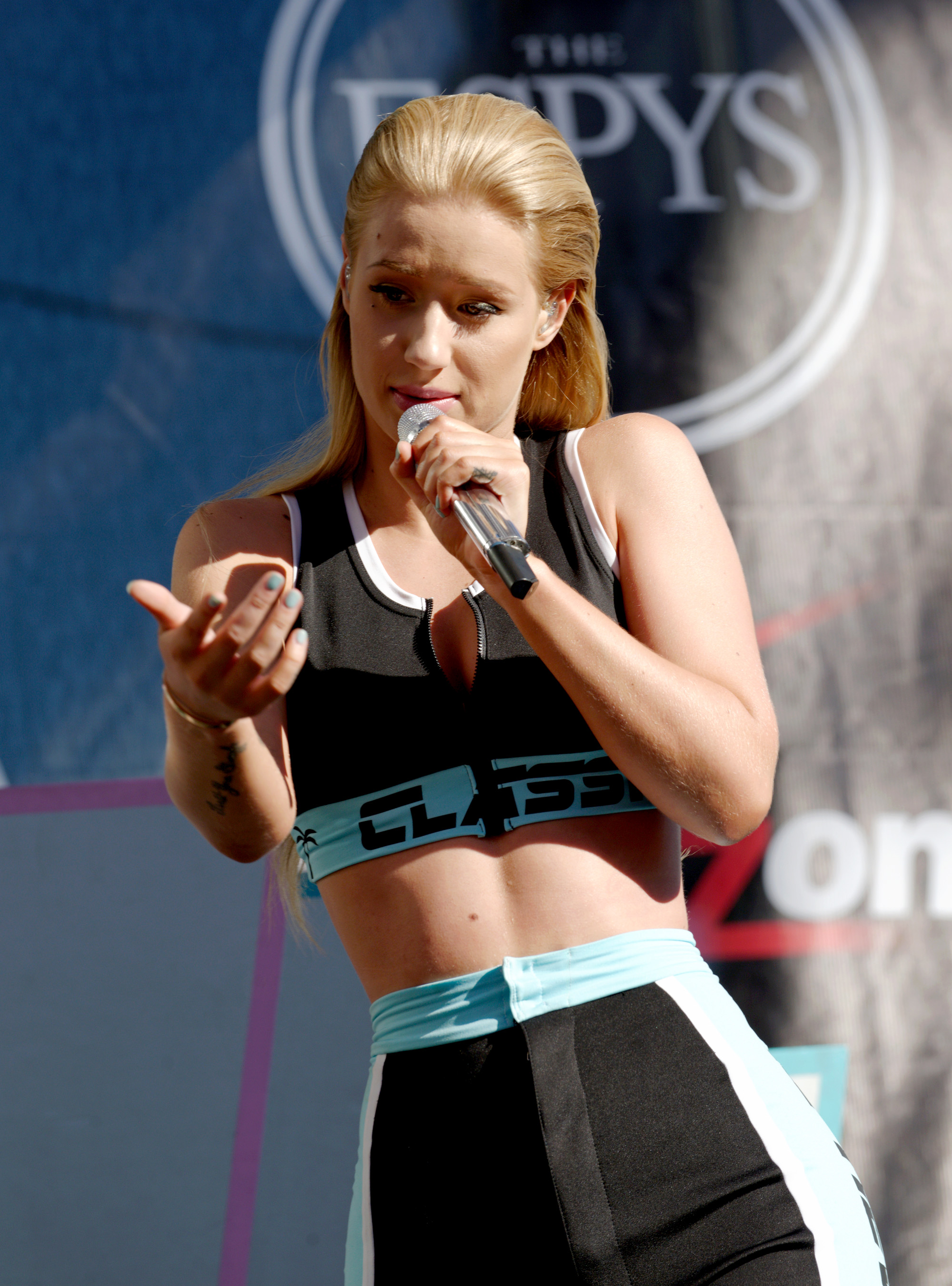 Iggy Azalea performing live at the ESPYs Experience (the ESPY Awards Pre-Show) on Nokia Plaza at L.A. Live in downtown Los Angeles California on Wednesday July 16th, 2014.